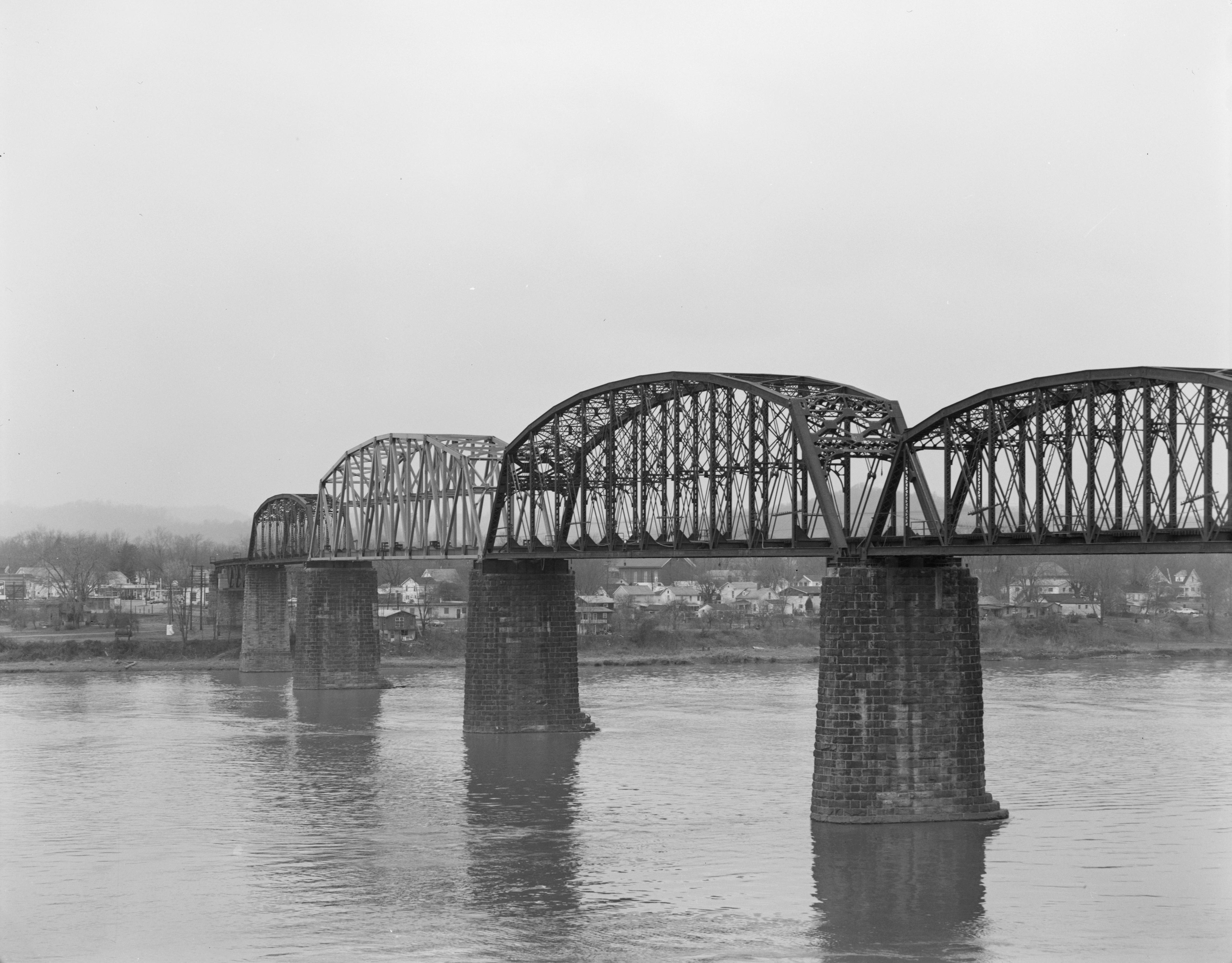 Western (downstream) side of the Sixth Street Railroad Bridge, which carries a former Baltimore and Ohio Railroad line over the Ohio River between Parkersburg, West Virginia and Belpre, Ohio, in the United States. Built in 1869, it is listed on the National Register of Historic Places.